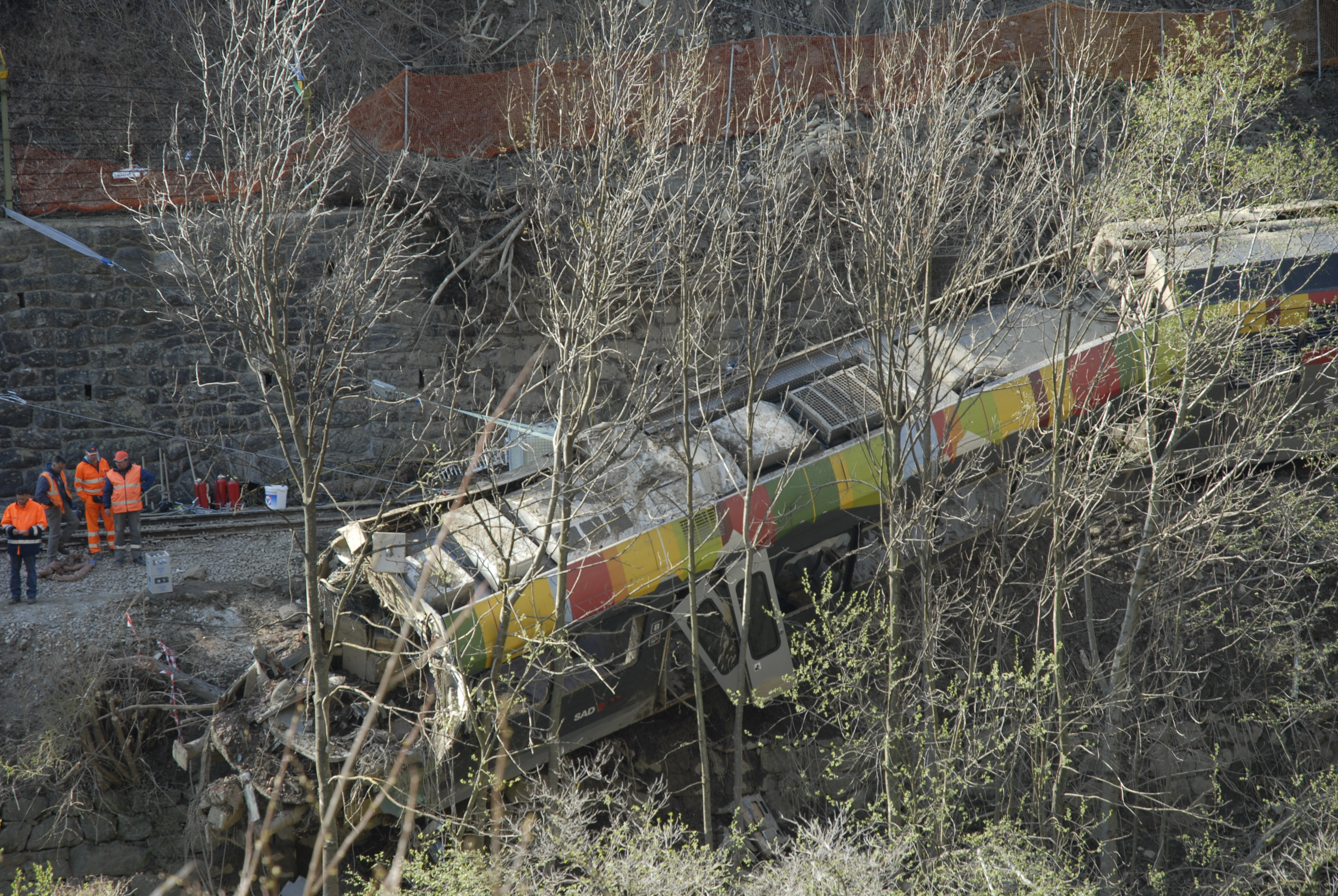 The accident of the Vinschgau railway on 2010.04.12, caused by a mudflow. 9 persons died, 28 were injured.